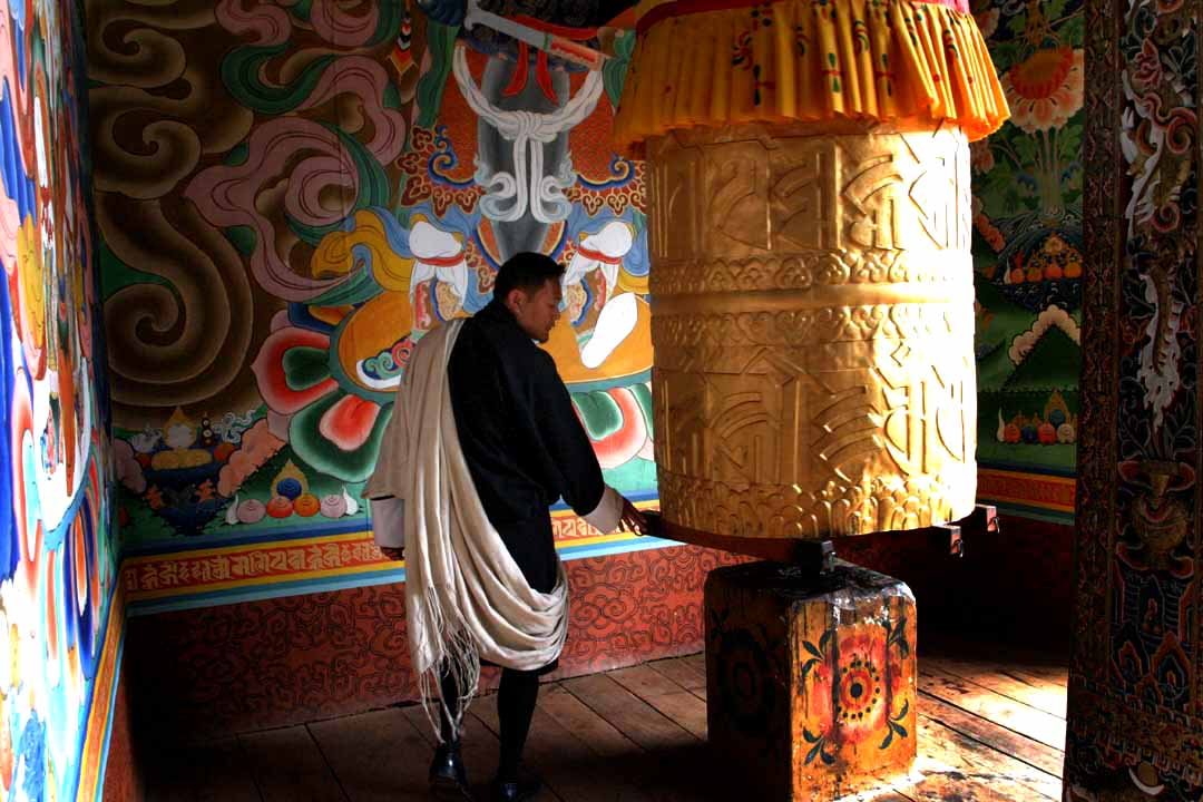 As the wheel spins round, the prayers fly to heaven... The man is wearing the tradtional Bhutanese clothing for men, which is commonly worn there.